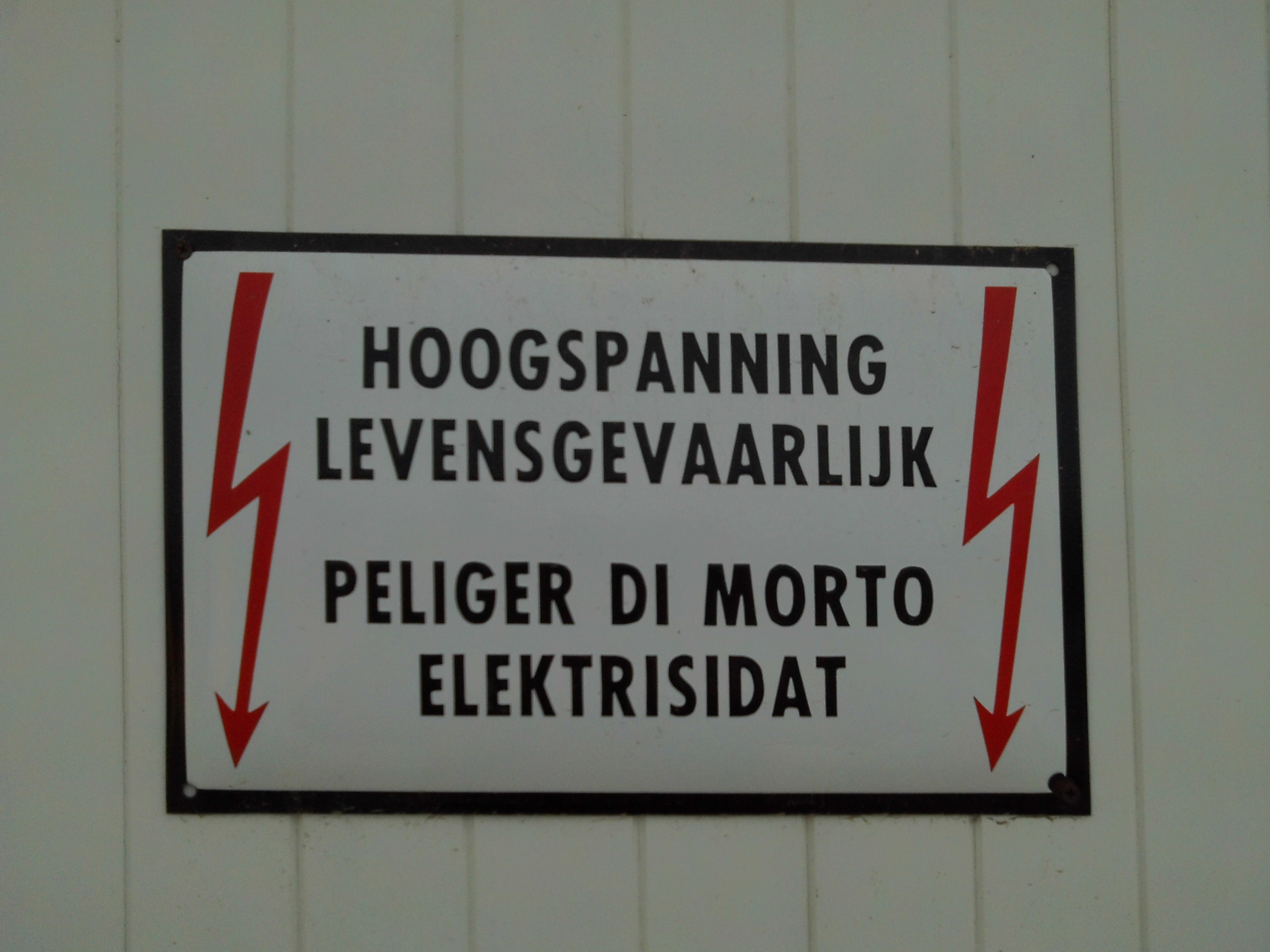 Security advice in Dutch and Papiamentu on a high-voltage device in Bonaire